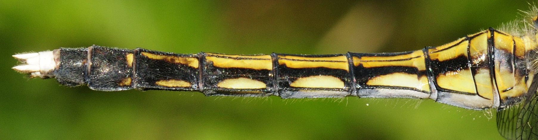 Abdomen of a young female of Orthetrum albistylum in the Ajameti Managed Nature Reserve (Georgia)